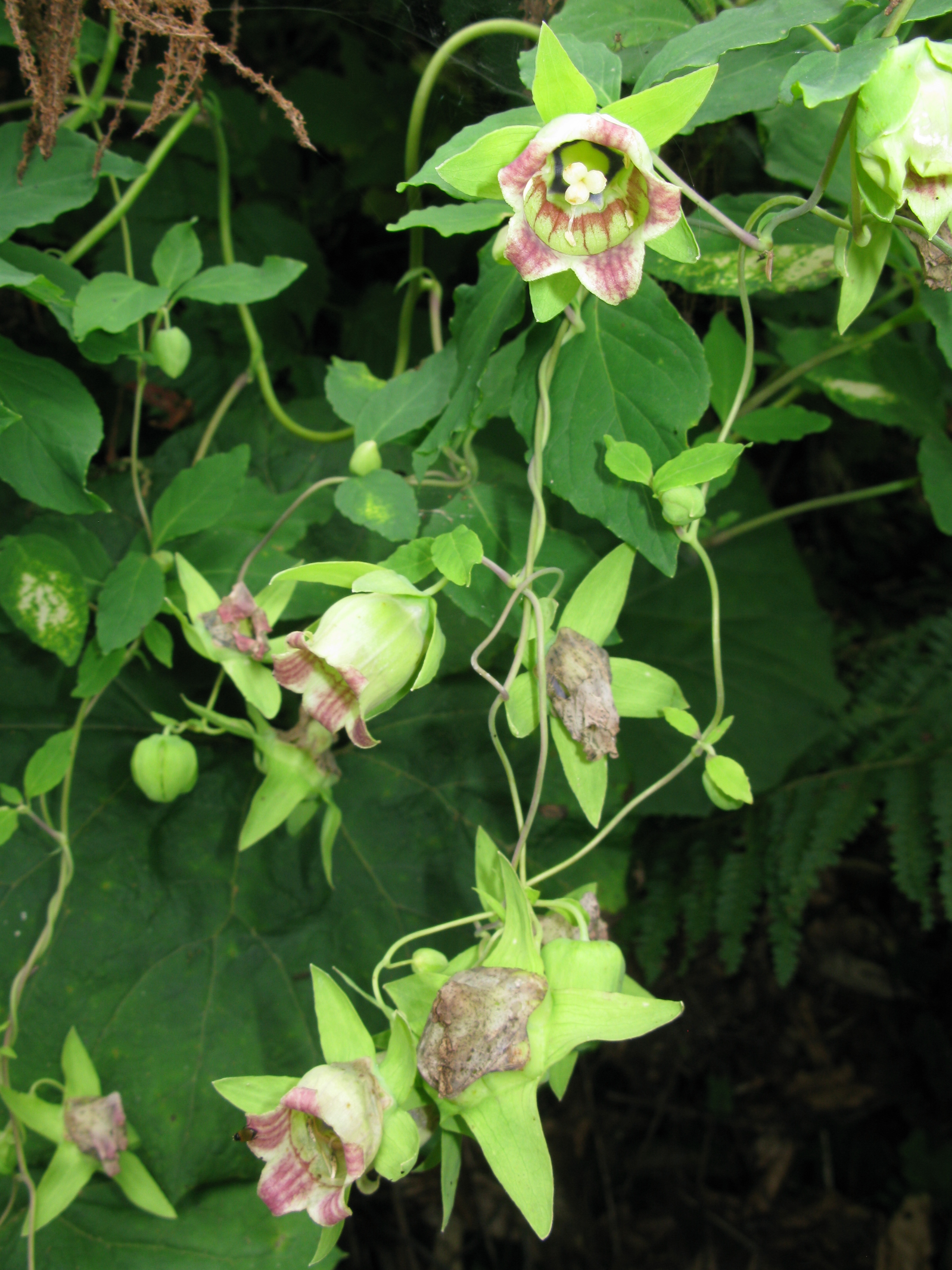 Codonopsis lanceolata, Mount Chōkai, Yamagata pref., Japan